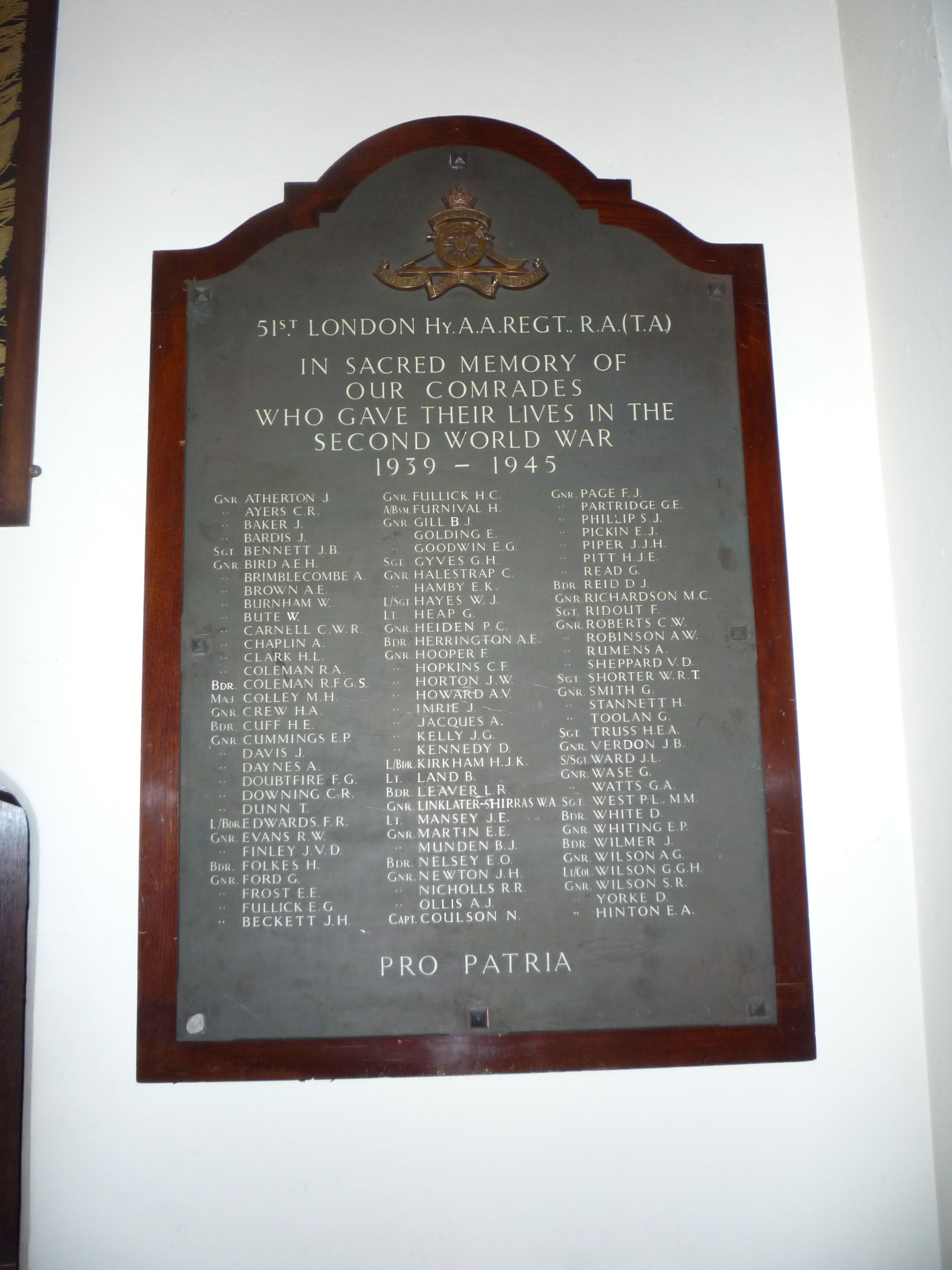 War memorial to 51st (London) Heavy Anti-Aircraft Regiment, Royal Artillery at St Luke's Church, Chelsea